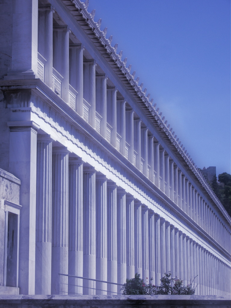 Reconstructed Stoa of Attalus, located in ancient Agora of Athens.